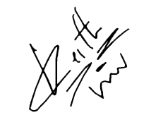 Keith Flint's signature